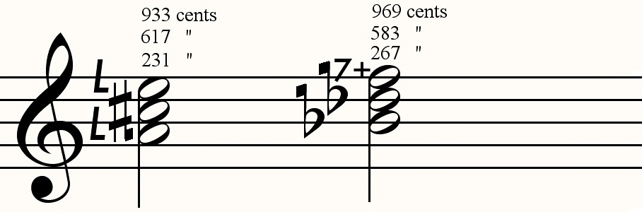 Interlocked movement from a major to a minor triad. From Harry Partch's The Letter.